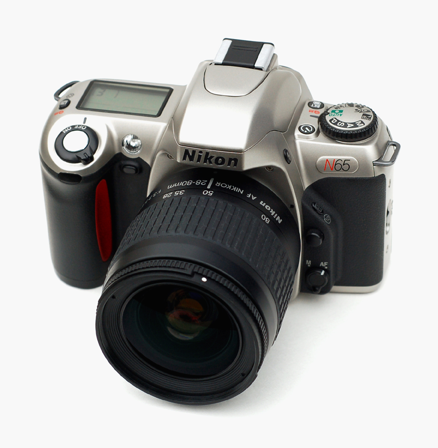 Nikon N65 (sold outside the US as the Nikon F65) with its 28-80 kit lens. Introduced in the year 2001.[1]